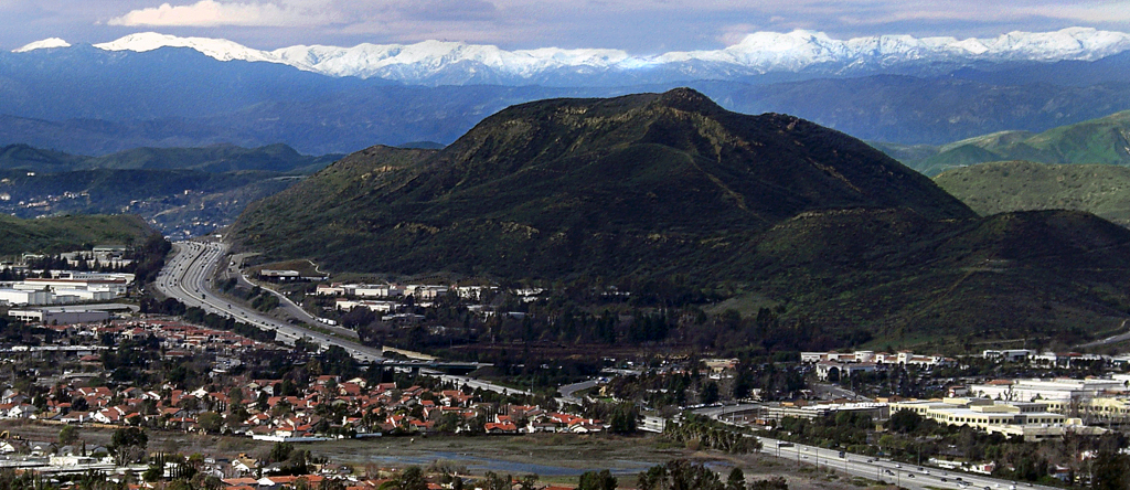 The Conejo Grade and the western portion of Thousand Oaks.